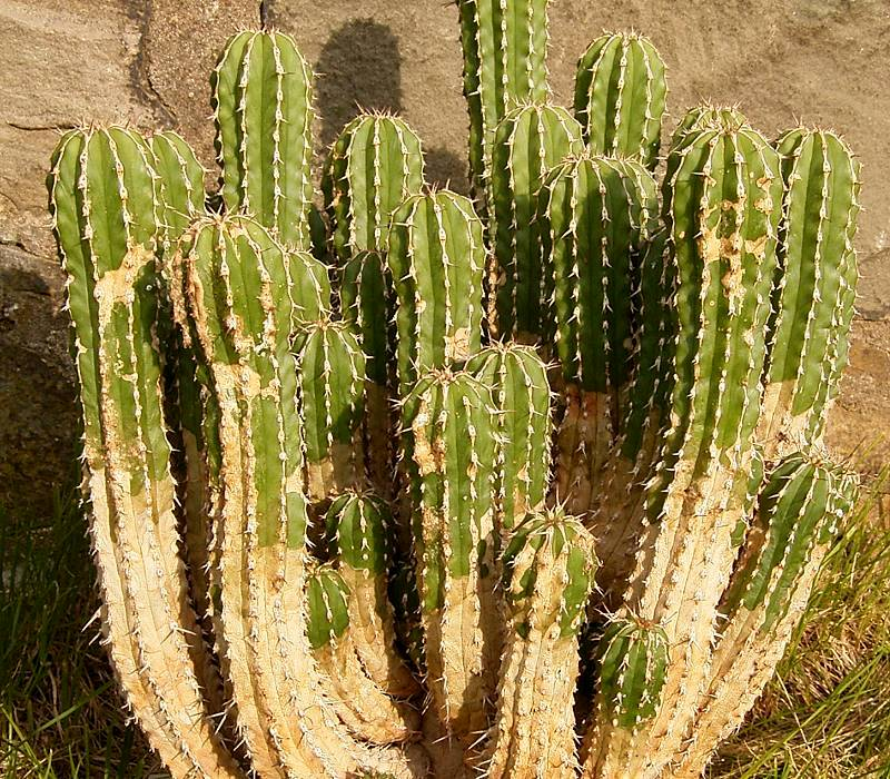 Euphorbia officinarum